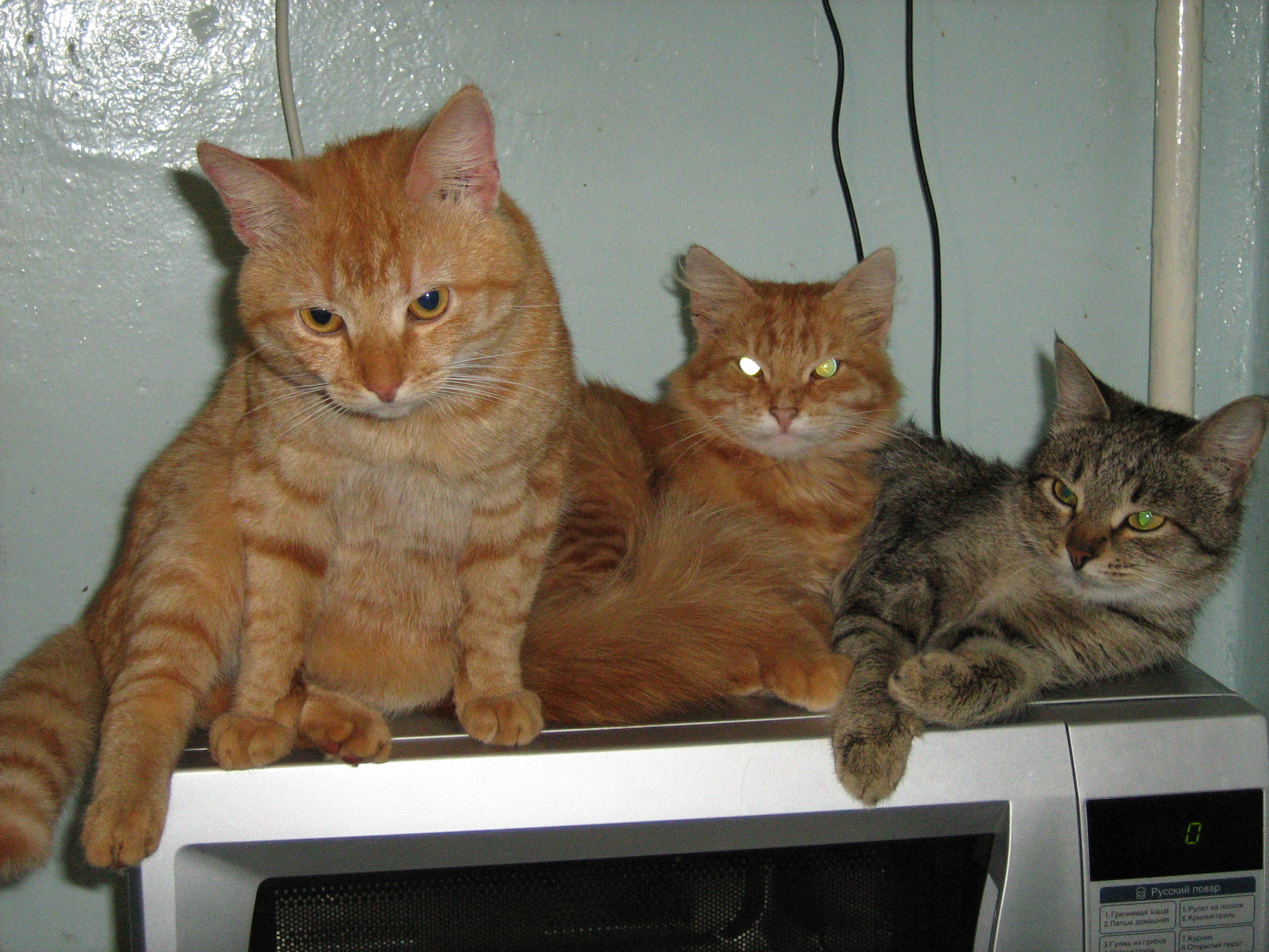 Three cats